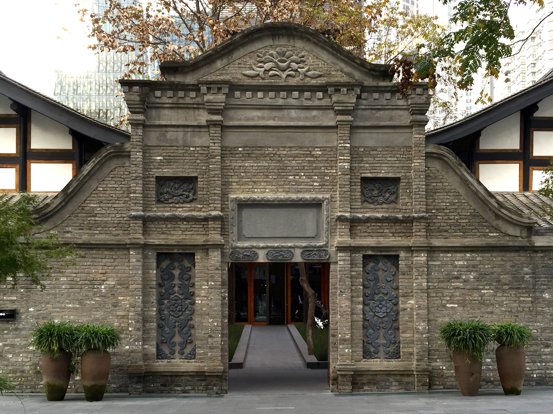 Historical Residence on Bitieshi Street near Chengdu's Daci Temple